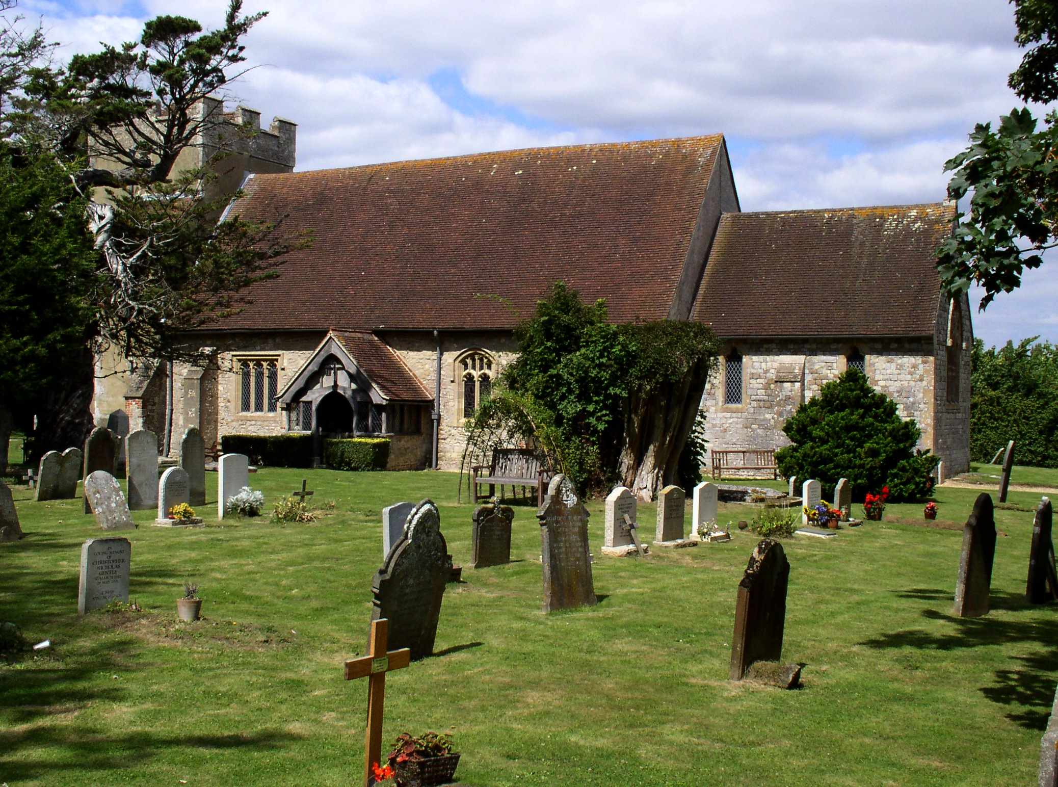 St James' Church, Birdham from the south, showing the churchyard.